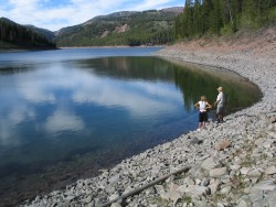 Lake Alice, Wyoming USA. The people in the picture fishing are Melissa Kelson, and Ross Kelson.